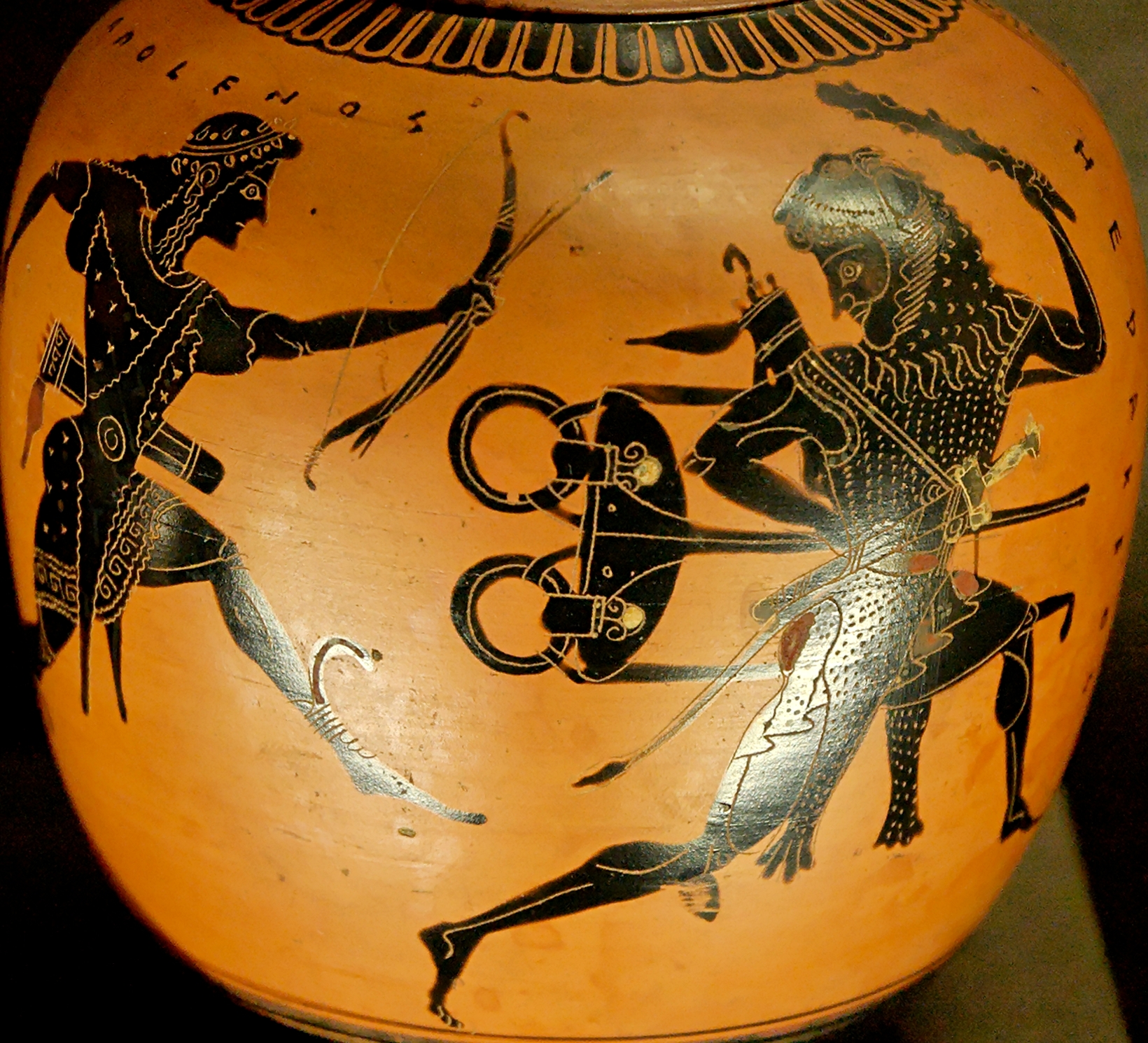 Dispute of Heracles and Apollo for the Delphic tripod. Attic black-figure oinochoe, ca. 520 BC.